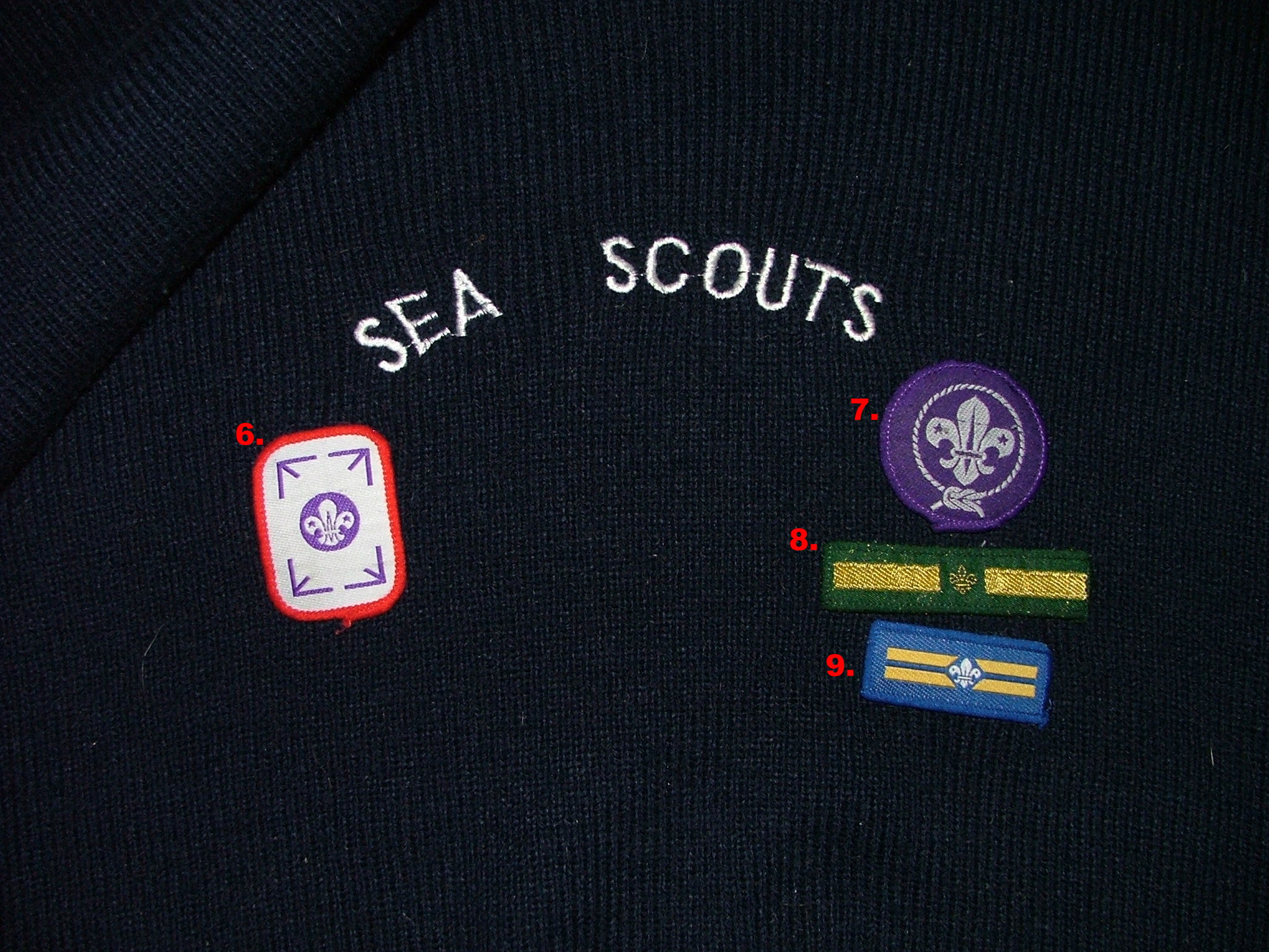 27th Belfast Sea Scouts uniform jumper